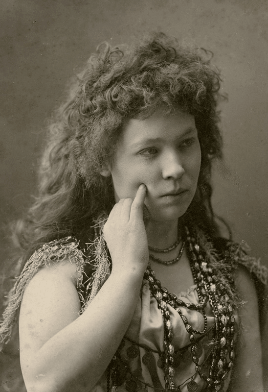 Preziosa - Amalie Konsa singing Weberi 's Preziosa. (Pärnu, 1903) viia Estonian Theater and Music Museum